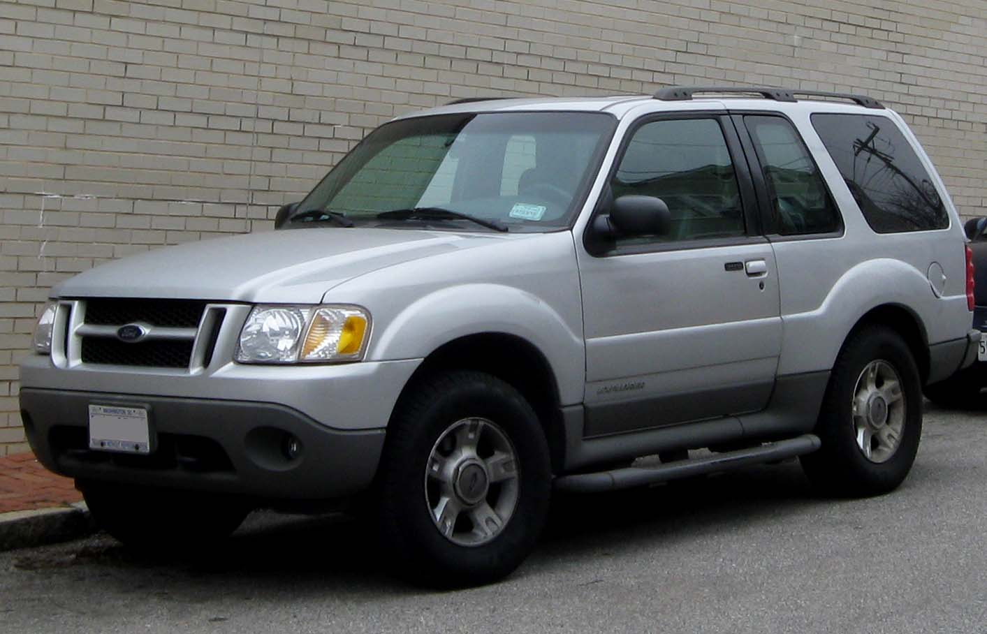 Ford Explorer Sport photographed in Annapolis, Maryland, USA.